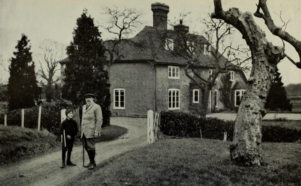 "Mr. Joseph Conrad"